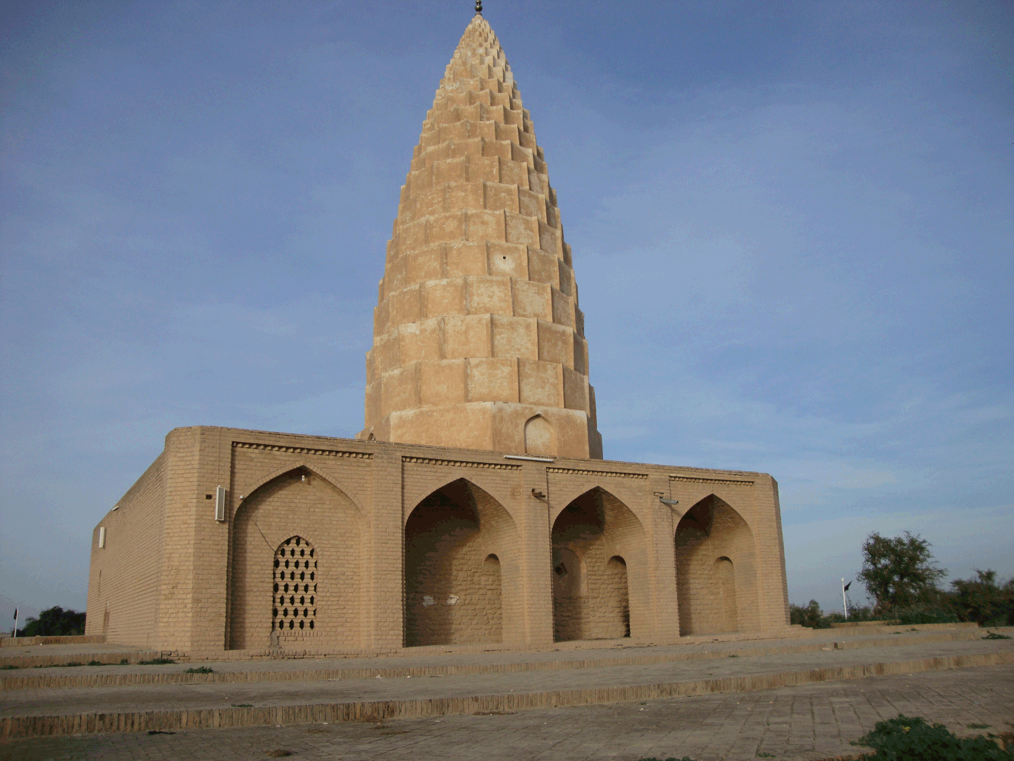 ارامگاه یعقوب لیث صفاری شاه آباد (جندی شاپور)،خوزستان